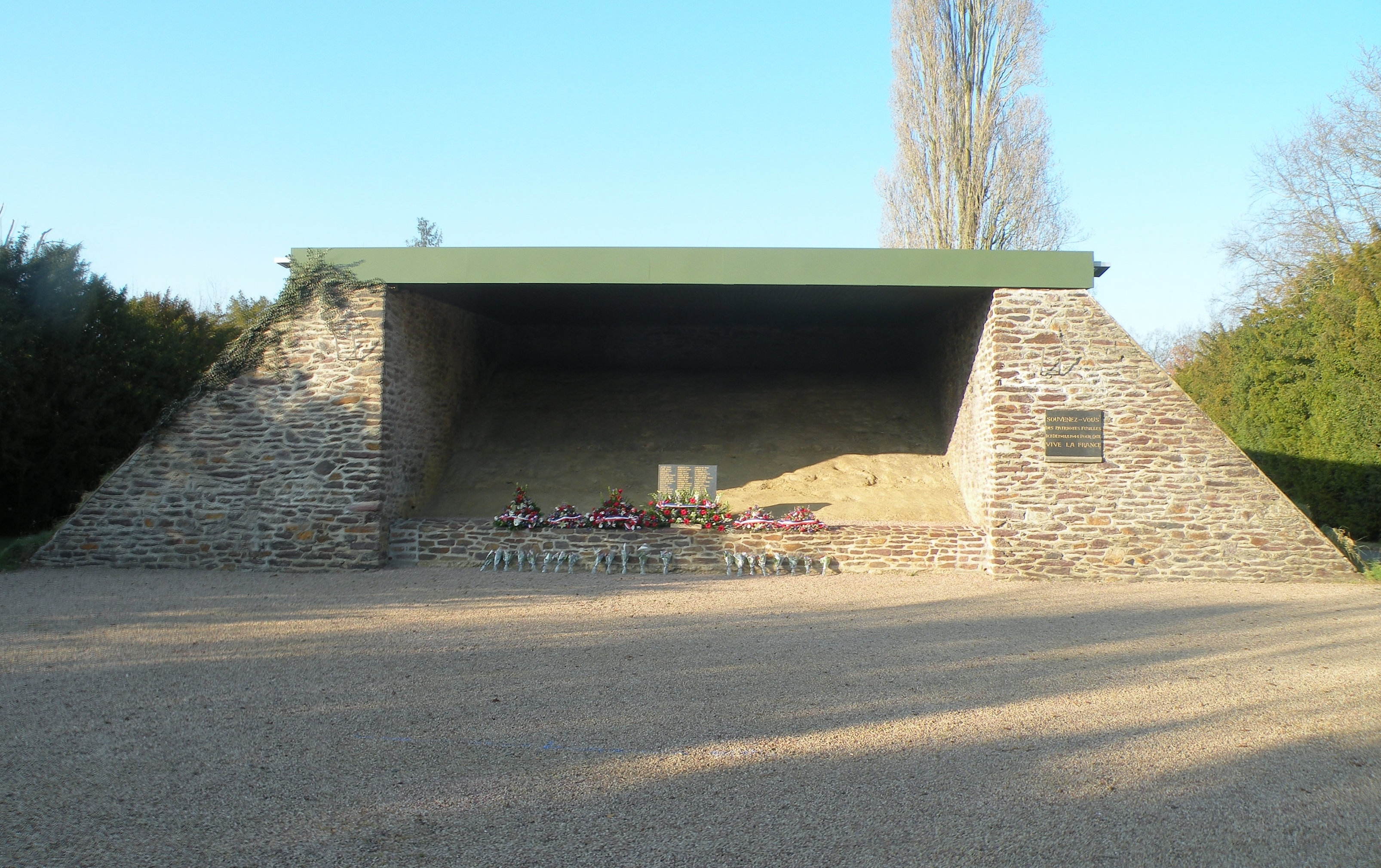 The Butte de la Maltière in Saint-Jacques-de-la-Lande, where 110 resistants were shot dead during WW2.